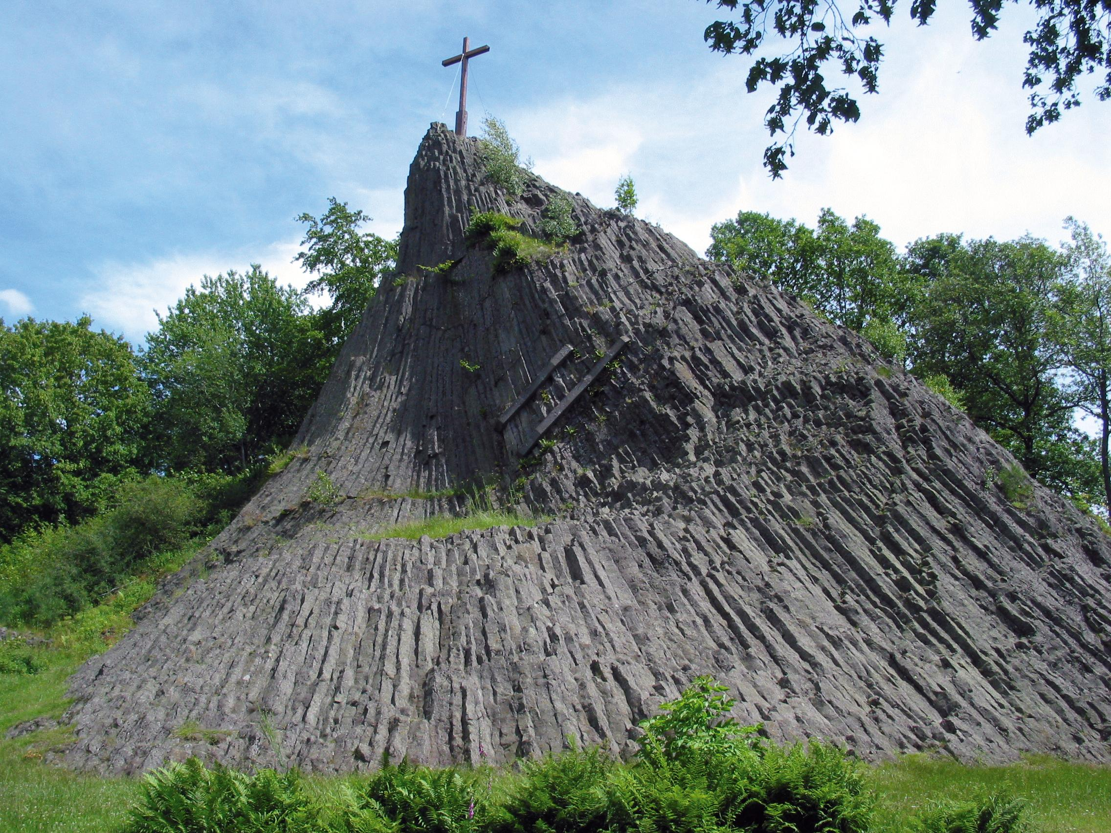 Druidenstein